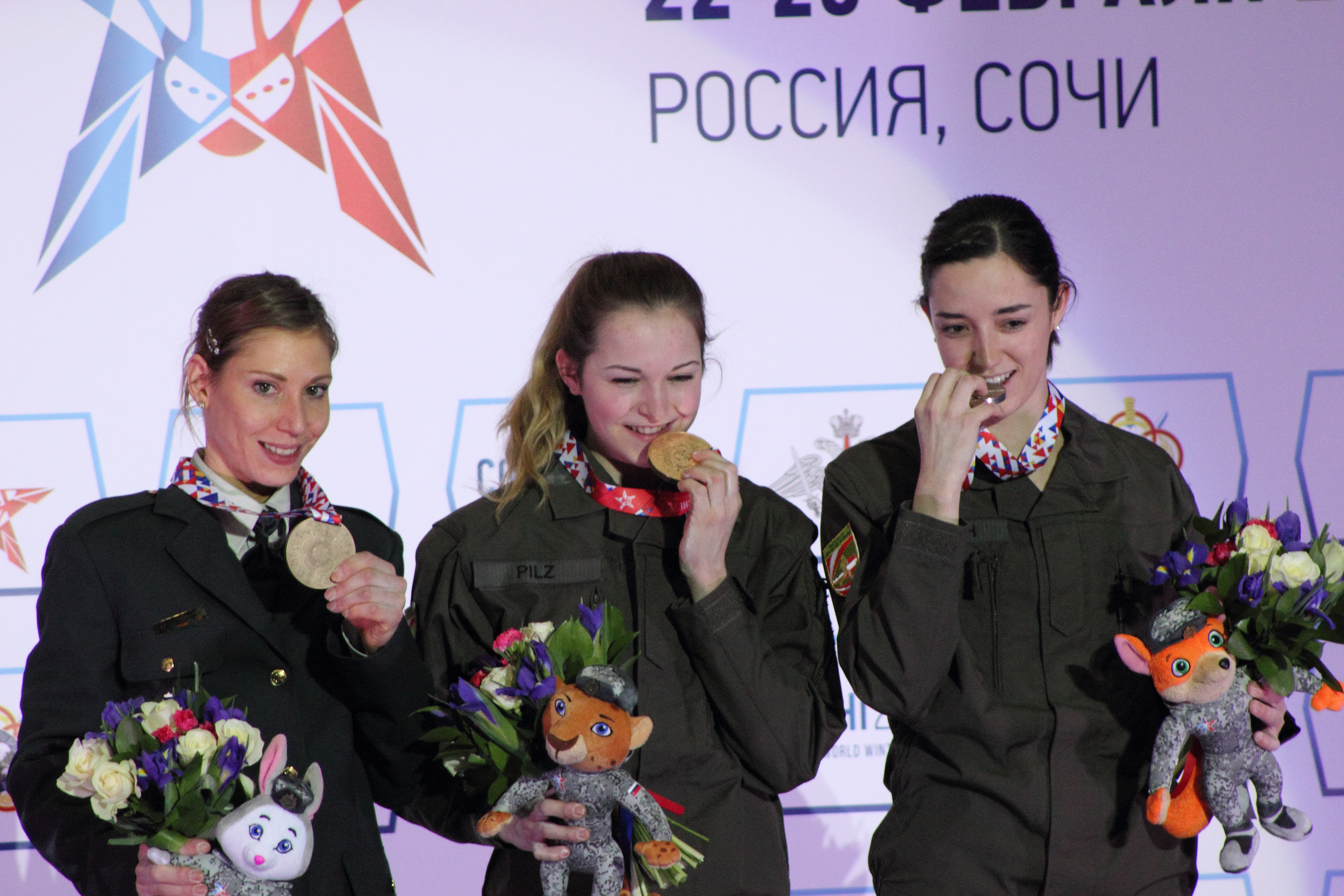 Podium in sport climbing, lead, the 3rd CISM WInter Military World Games. From left to right: Mina Markovič (bronze), Jessica Pilz (gold), Katharina Posch (silver).